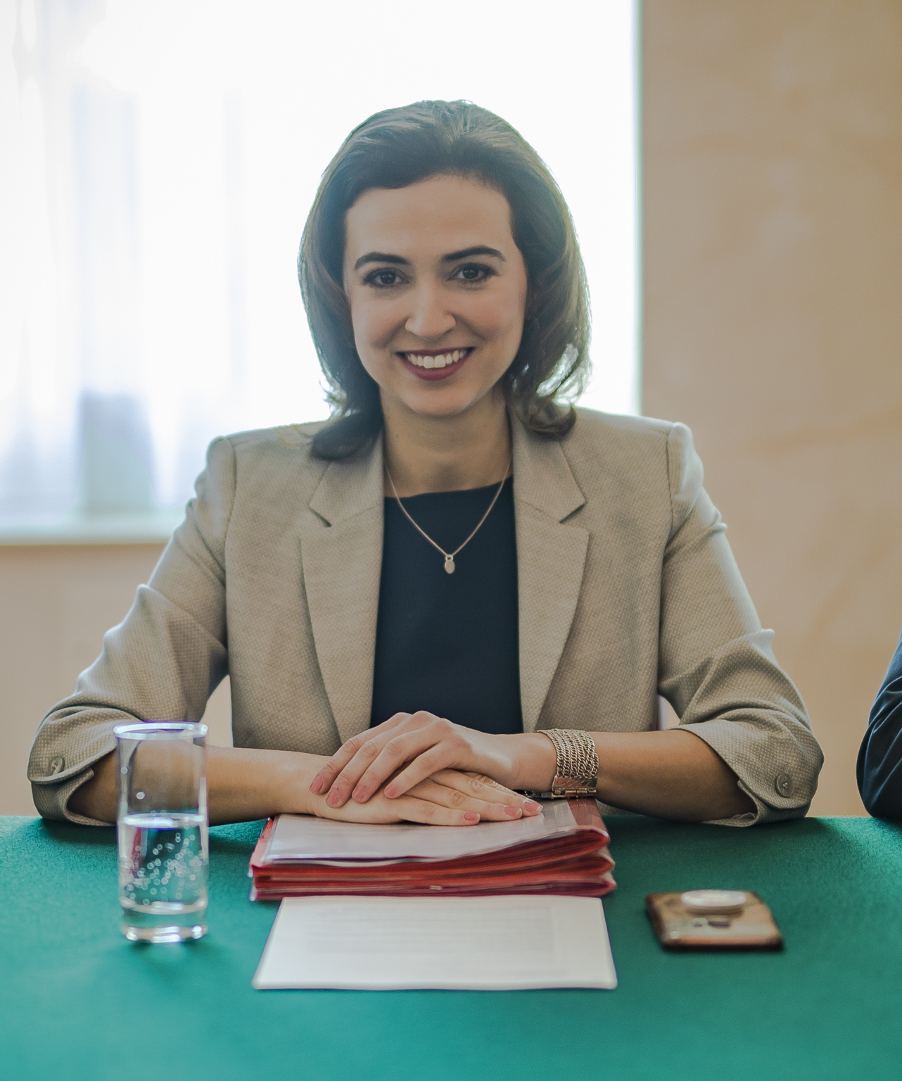 Fotocredit: BKA